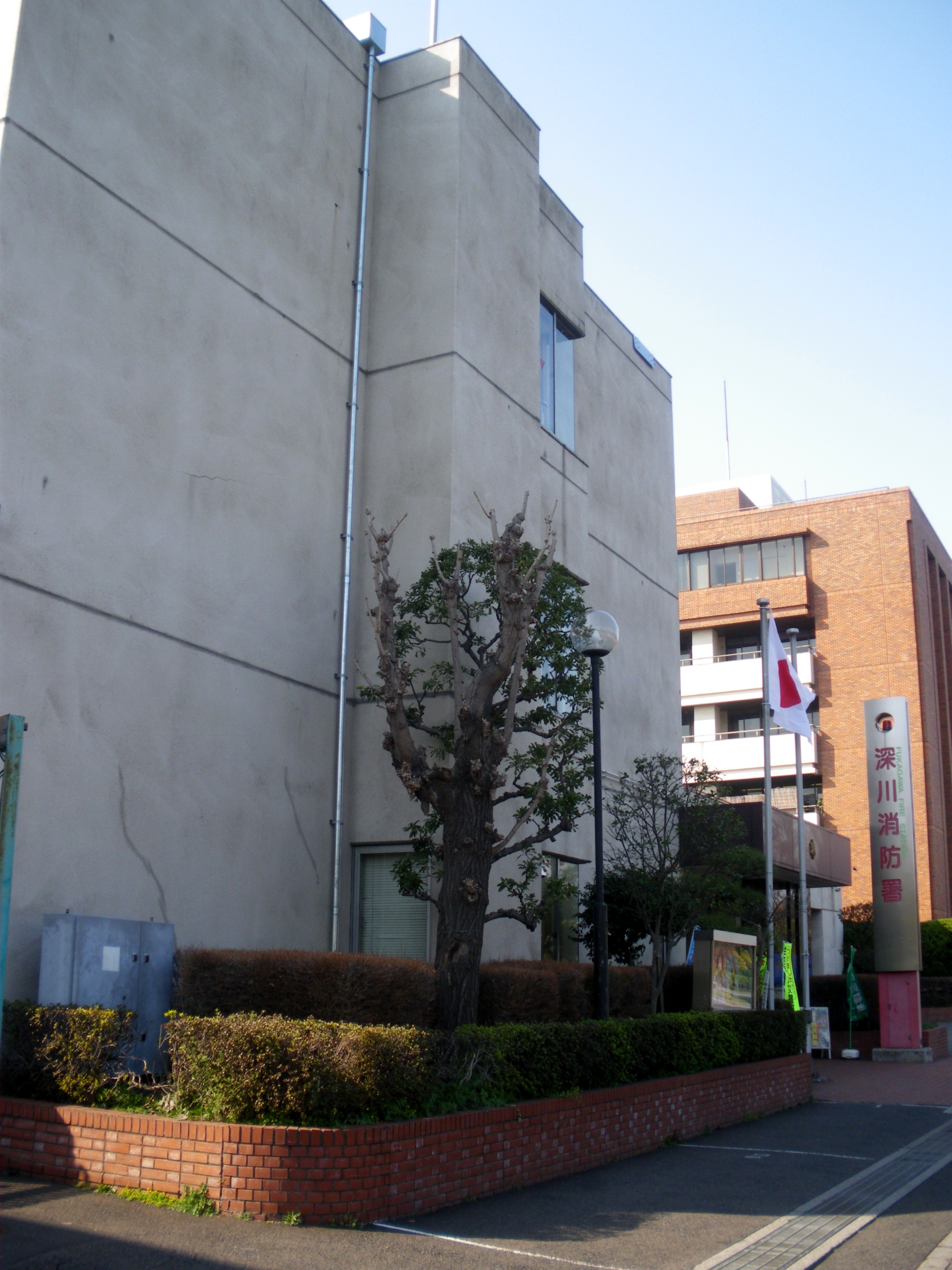 Fukagawa Fire Station(Koto,Tokyo)